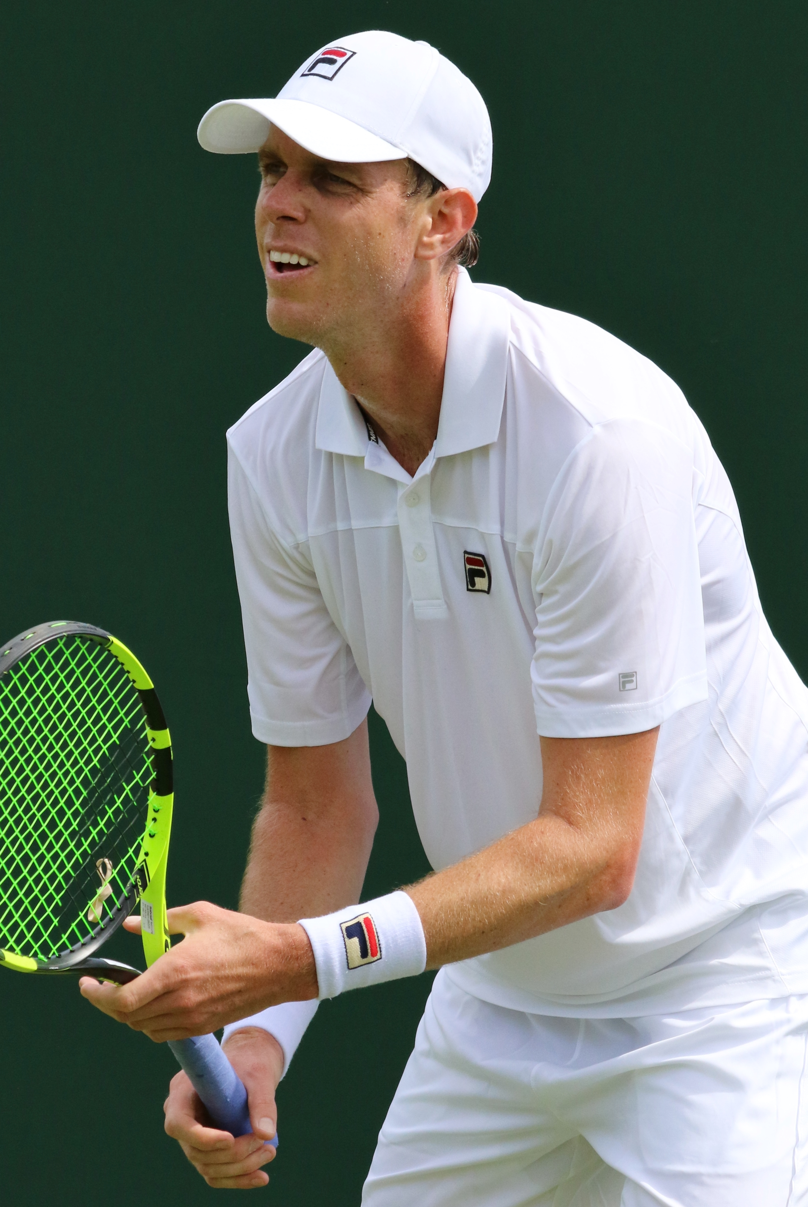 Querrey WM16 (11)